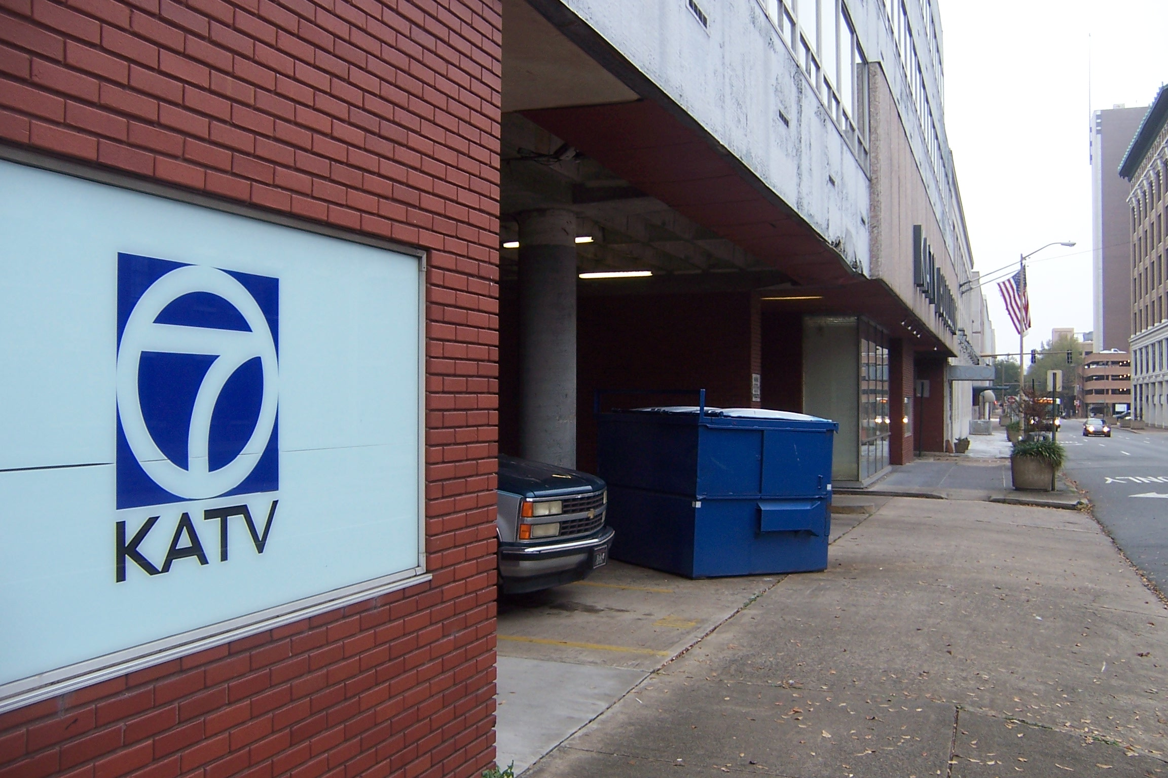 KATV studios in Little Rock, Arkansas